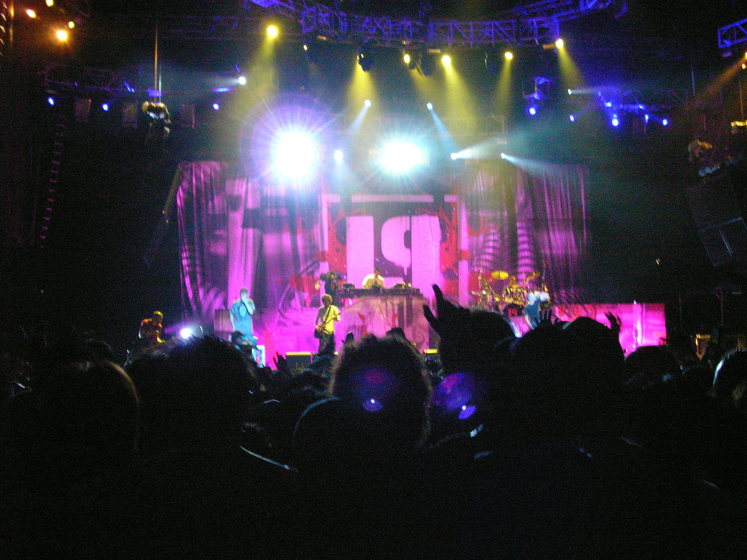 Linkin Park at Summer Sonic 2006.